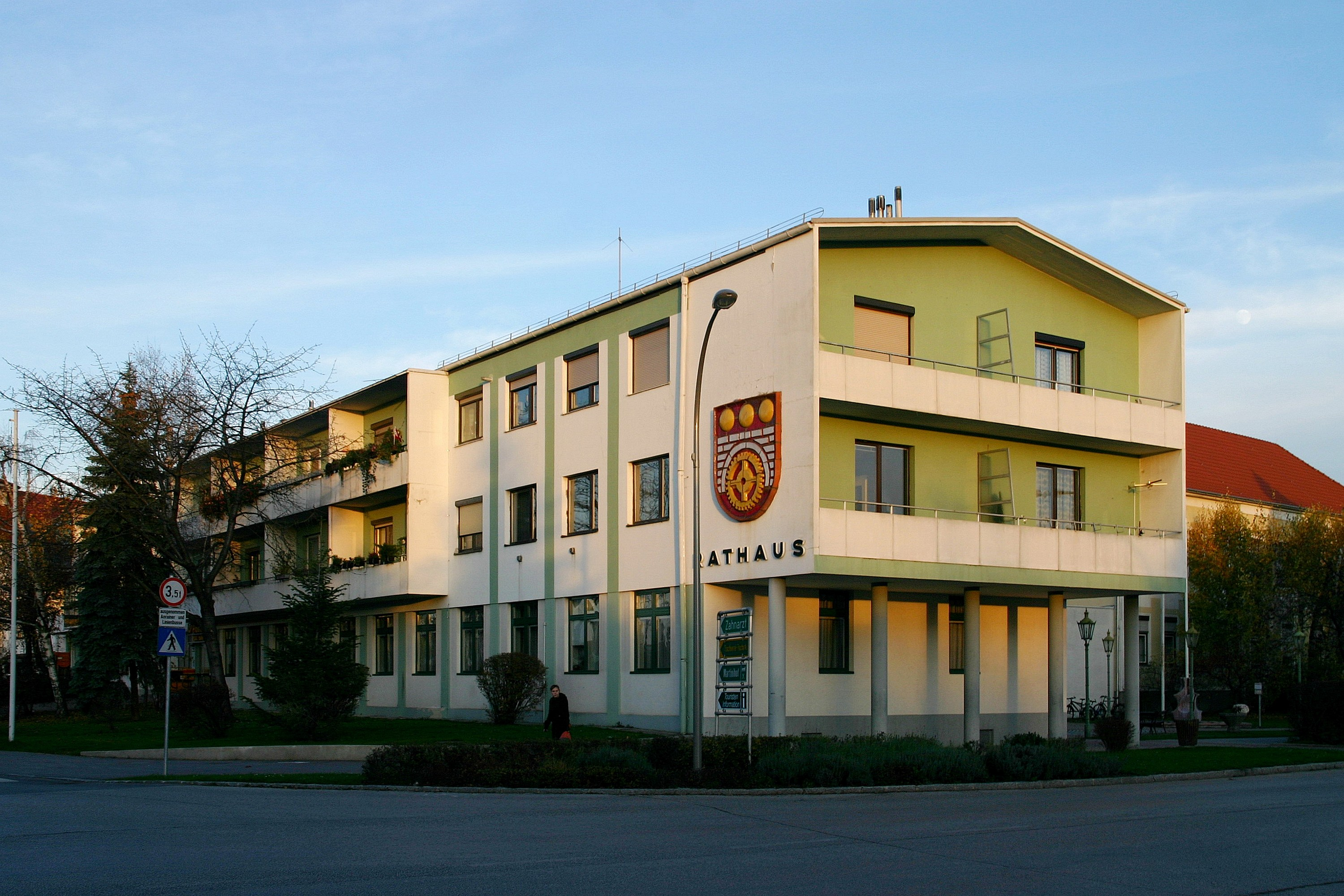 Municipal office - Neudörfl Object location47° 47′ 45.32″ N, 16° 17′ 52.7″ E